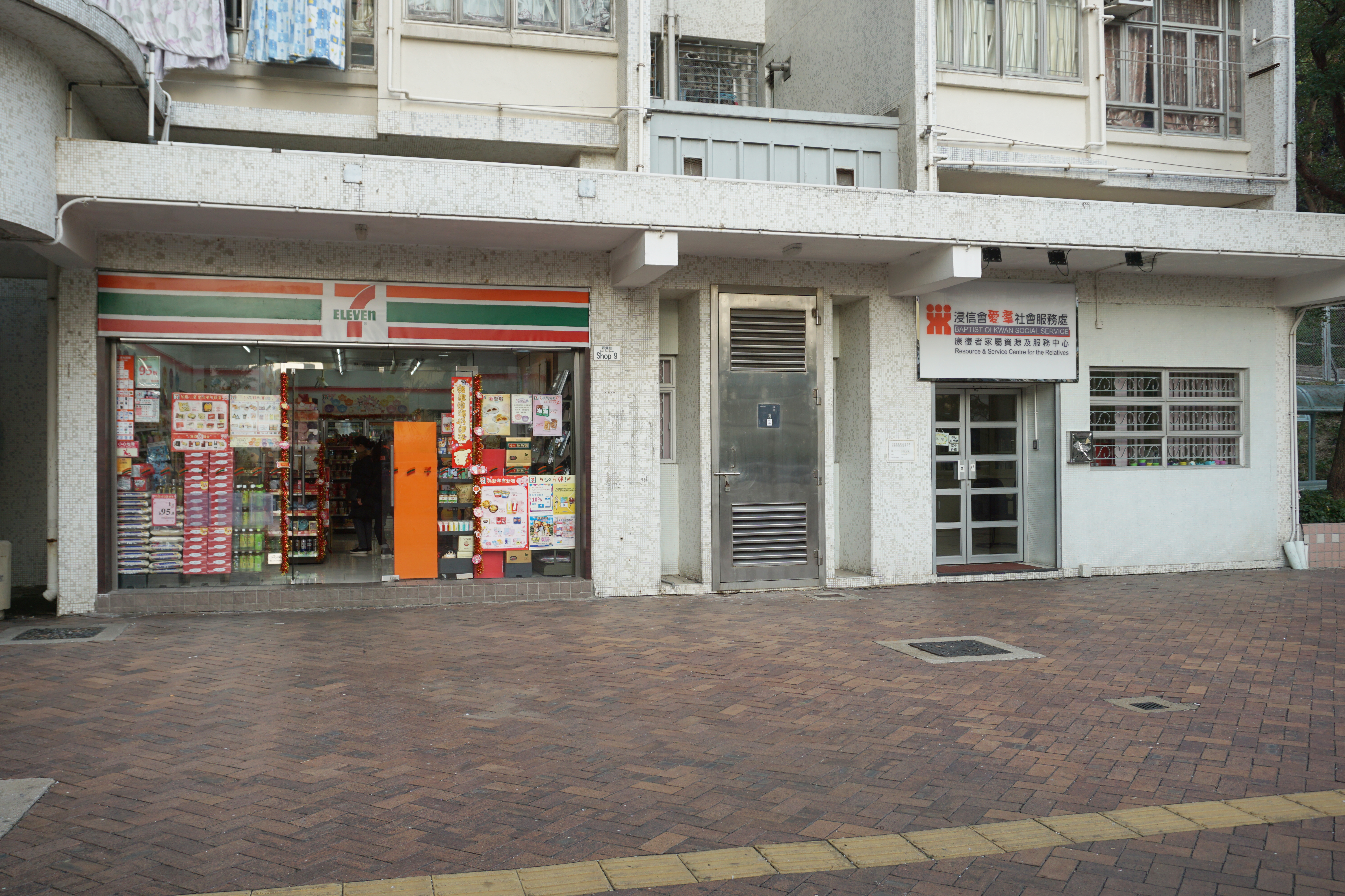 Choi Fai Estate in Ngau Chi Wan, Hong Kong.